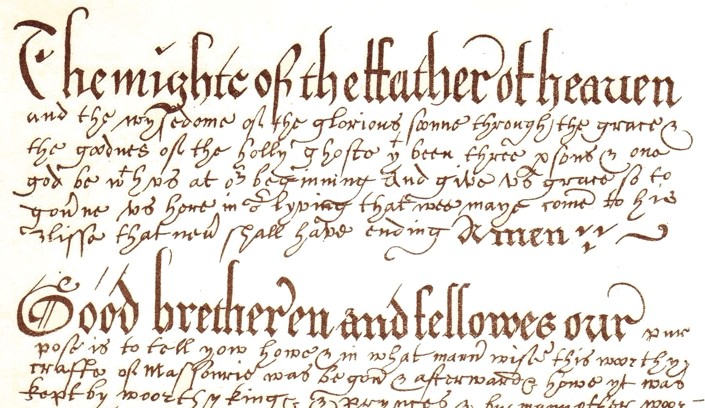 Introduction to Grand Lodge MS no1